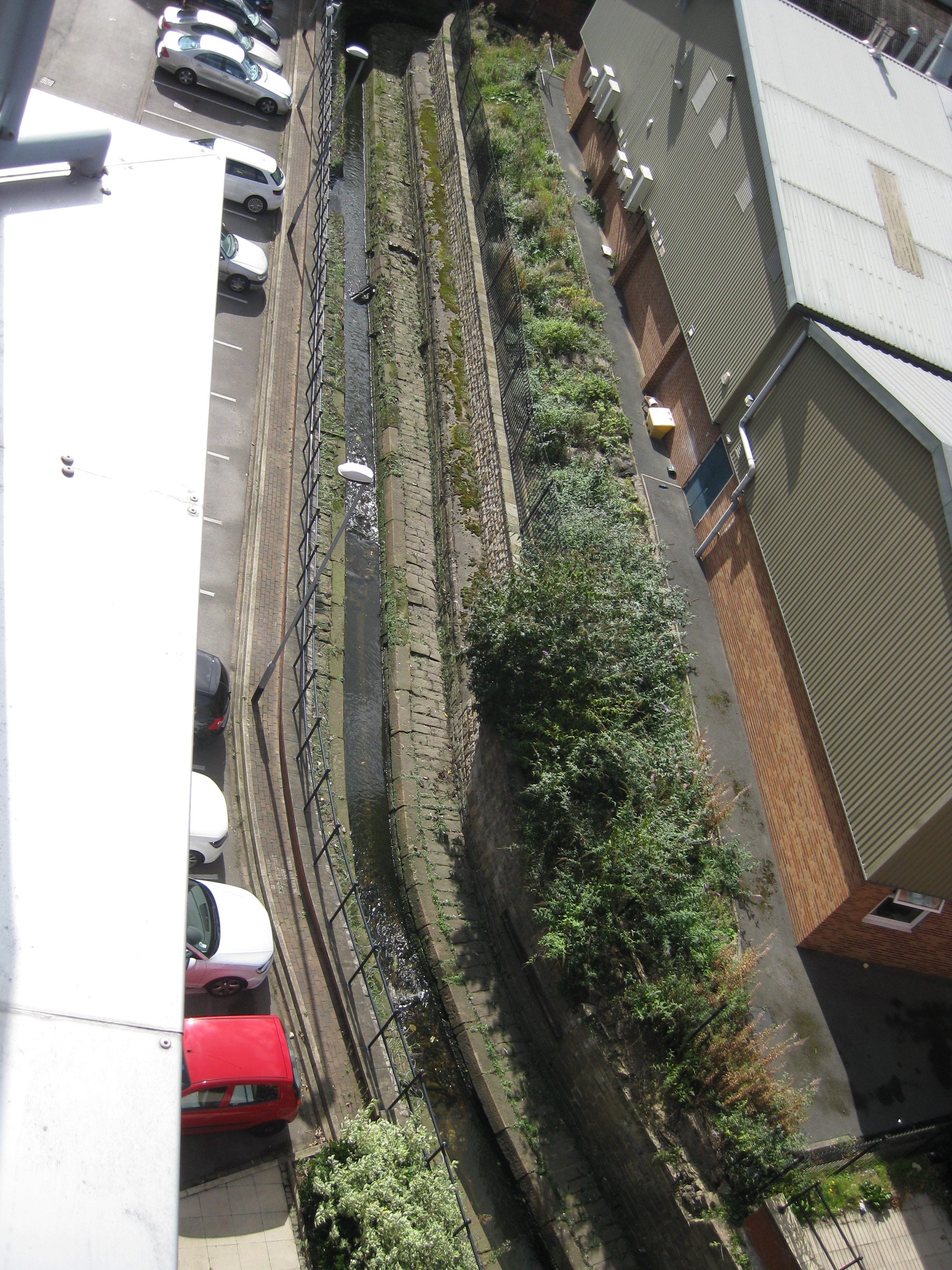 The Lady Beck or Mab Beck, looking south from Skinner Lane, Leeds, with Mabgate on the left and the former area of the Leylands on the right. This was the division between the two areas in the 19th century. The beck is culverted over a little further on, going through the city centre. It is a tributary of the River Aire. From the top of a building looking down.